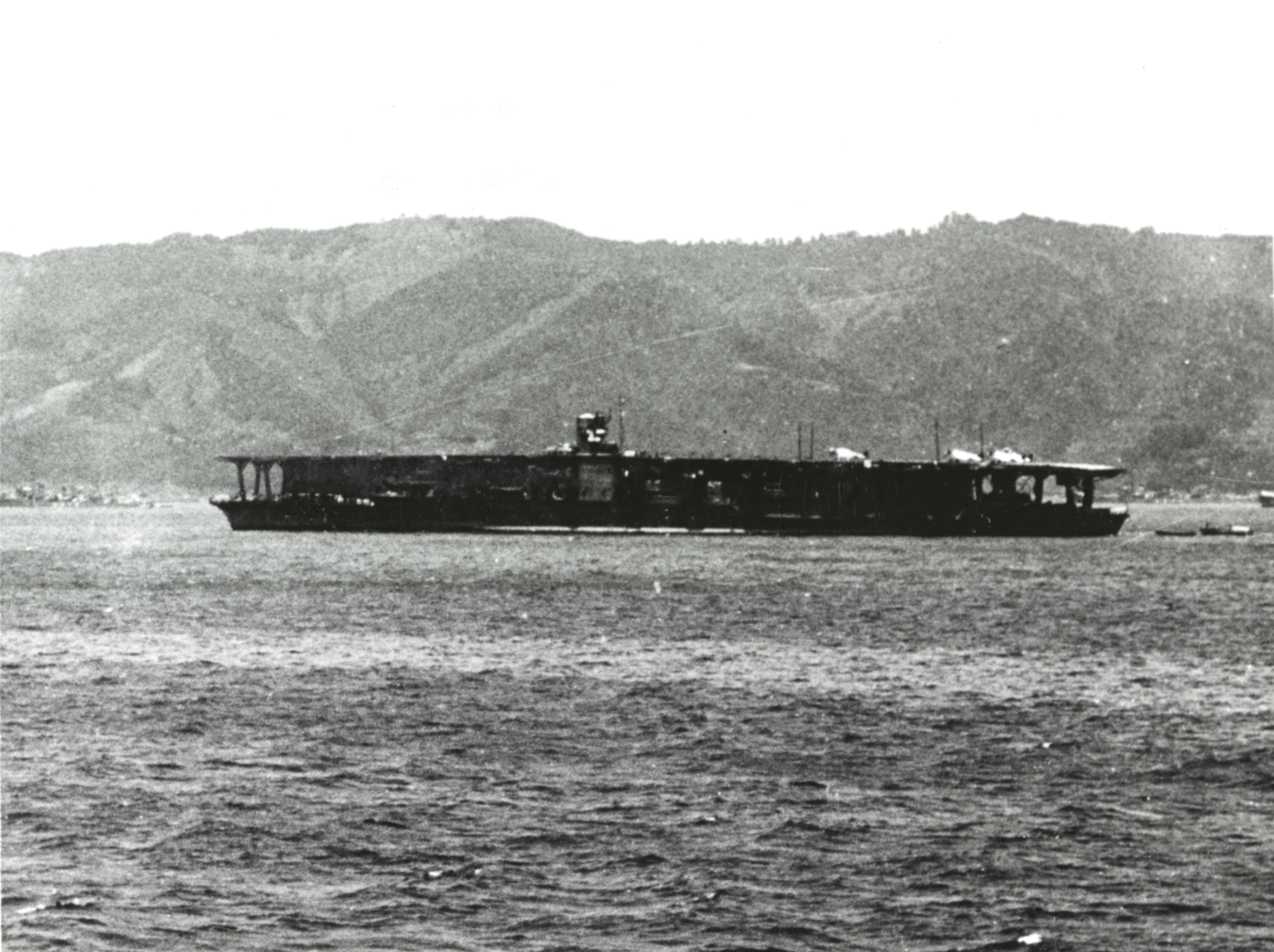 The Japanese aircraft carrier Akagi in Sukumo Bay, southern Shikoku (Japan), on 27 April 1939, following her extensive 1935-38 modernization.